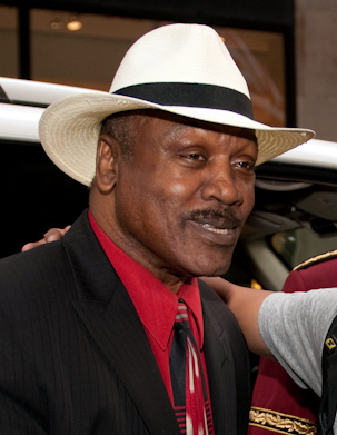 Joe Frazier in June 2010. Arvee eco photography.